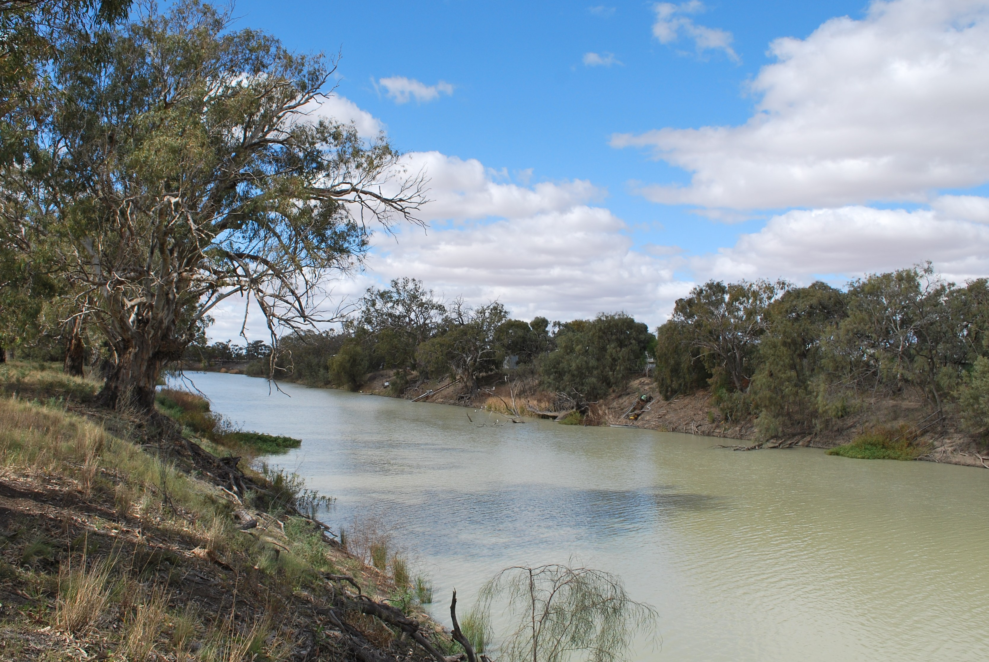 Darling River at Menindee, New South Wales